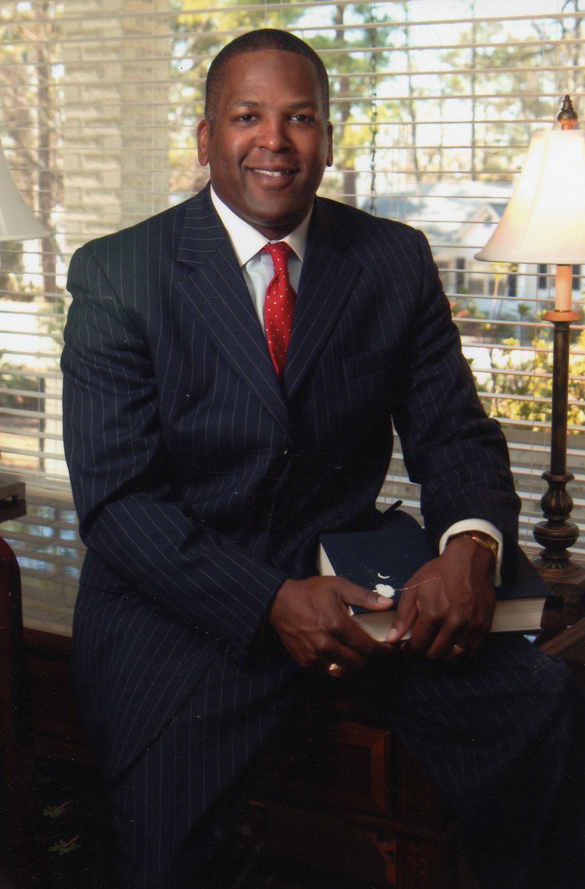 Mayor Benjamin of Columbia SC in a blue suit.